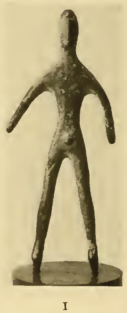 male Statuette